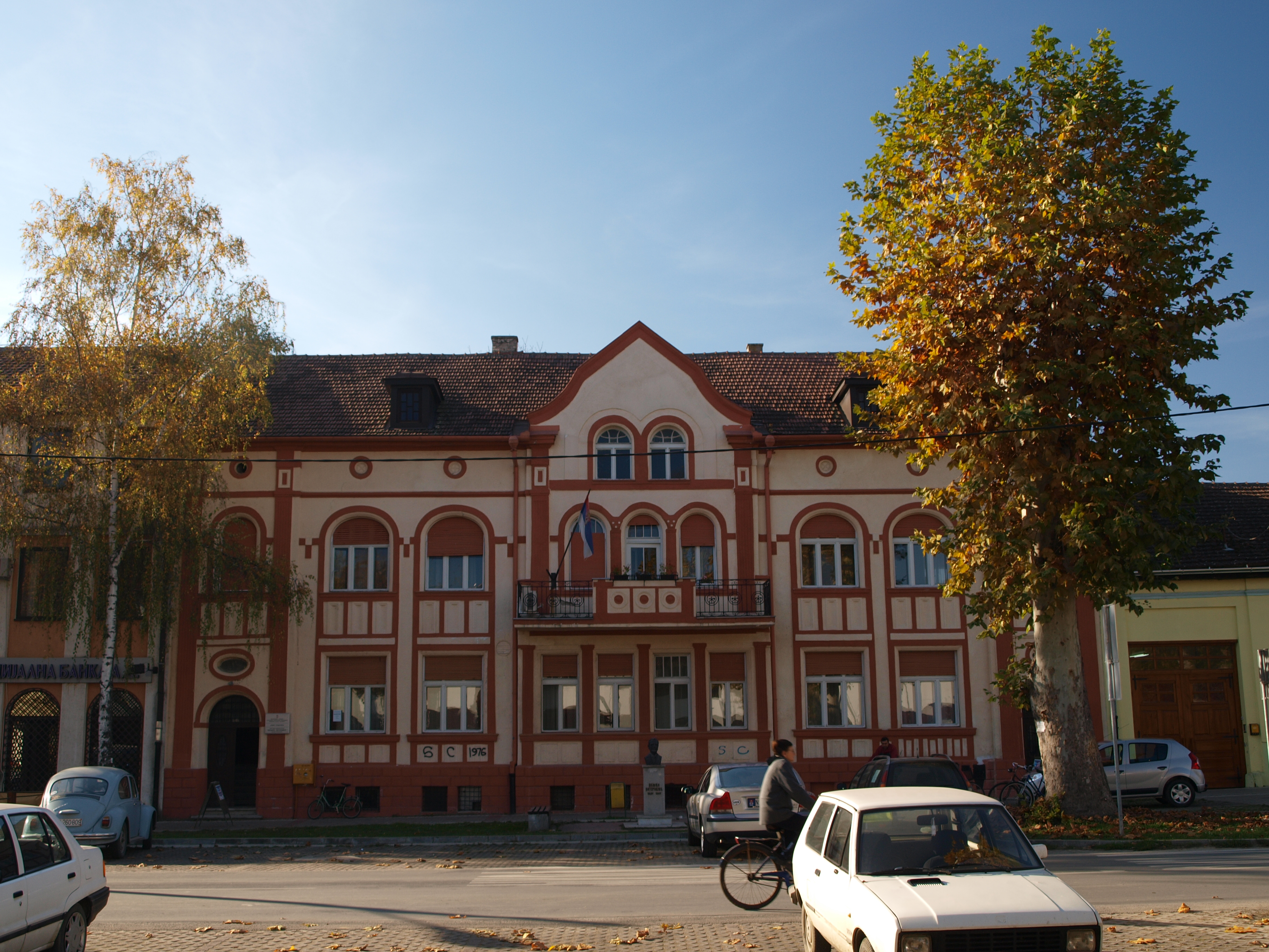 Library "Veljko Petrović" in center of Bačka Palanka.